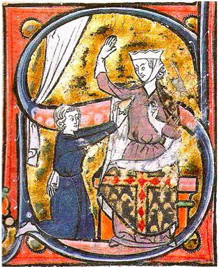 Miniature (capital S) from a manuscript of the Roman de la poire. This is the earliest known visual depiction of a lover handing his heart to his mistress. The heart is in the shape of a pine-cone (point upward), in accord with anatomical descriptions of the human heart at the time. Caption by BNF: Atelier du Maître de Bari. La dame de Thibaud et Doux Regard.[1][2] See Vinken, P (2001), "How the heart was held in medieval art", The Lancet 358 (9299): 2155–2157[3]: "The first illustration of a heart outside the anatomical literature occurred as late as the 13th century, in a French manuscript, written by an unknown poet and entitled Roman de la poire (Romance of the pear). This story takes its title from a scene in which the damsel offers a pear, analogous to Eve's apple, to her sweetheart. In the tale, the suitor's gaze is represented as an actual character called Douz Regart (Sweet Looks). In a miniature, within the calligraphic curve of a golden capital S, he is pictured kneeling before a lady and offering her the lover's heart. The shape of this heart resembles the form of a pine cone–a shape that accords with descriptions of the heart in anatomical literature since Galen and Avicenna." Vinken cites the source of the image as "FR, MS. 2086, plate 12. National Library, Paris, France". The immediate source of this image, a webpage at univ-montp3.fr, misreports the source as MS fr 1584 (but giving the correct folio, 41v), dated c. 1275. Vinken also misreports the ms signature, giving 2086 instead of 2186 (presumably an unnoted typo).